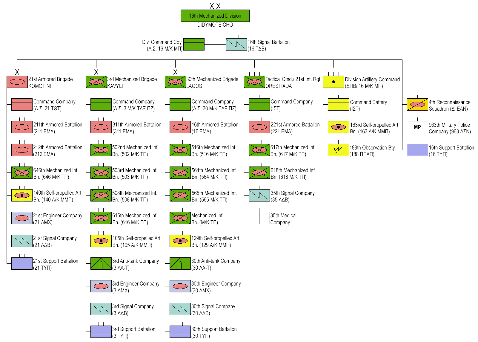 Hellenic Army XVI Mechanized Infantry Division